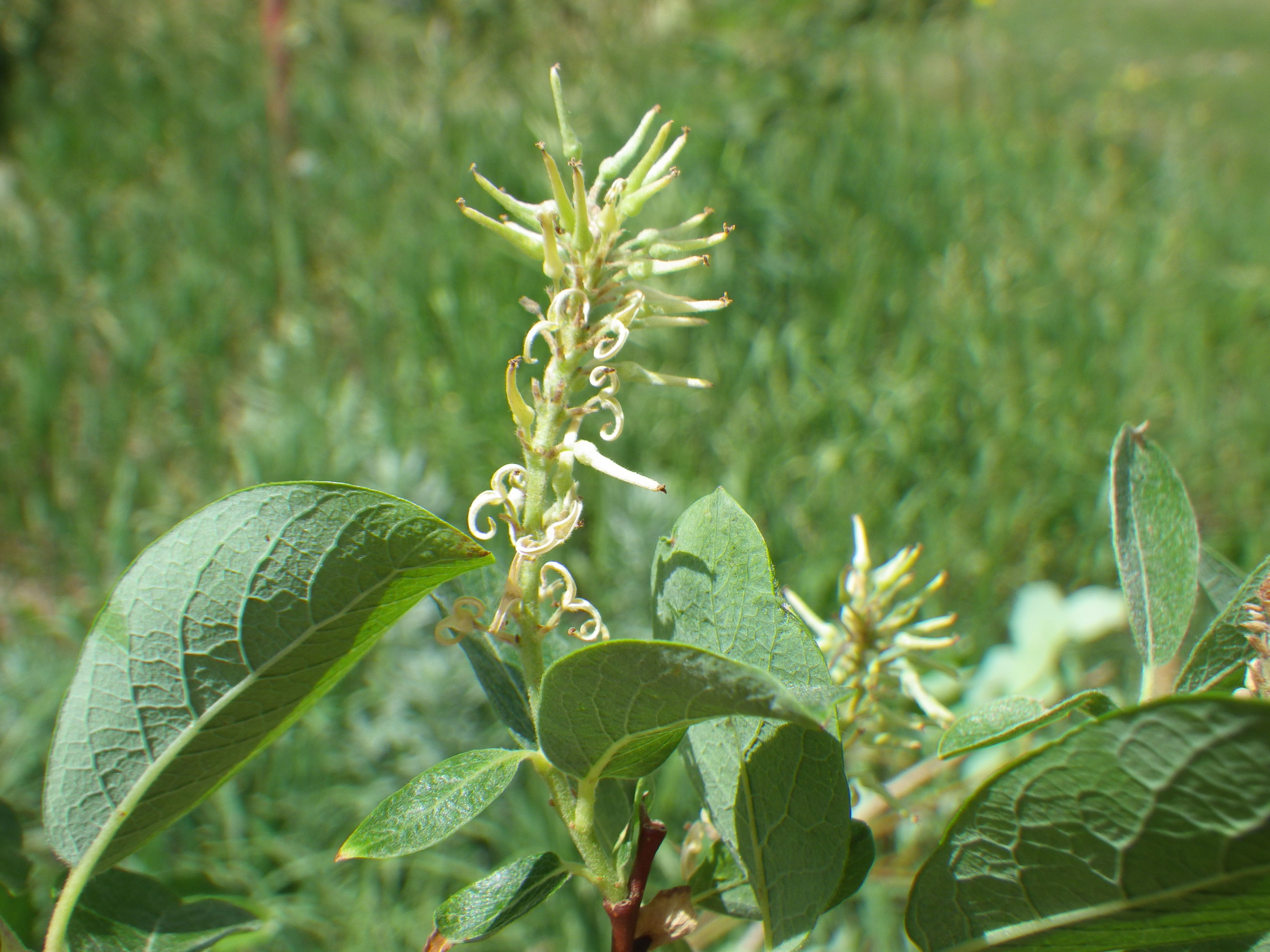 The pistillate catkins of Bebb willow are distinctive in each ovary being borne from a long pedicel (note the whitish reticulate-vein undersurface of the leaf).